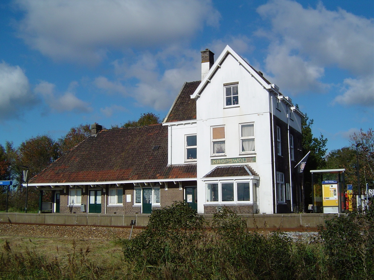 Station Kropswolde